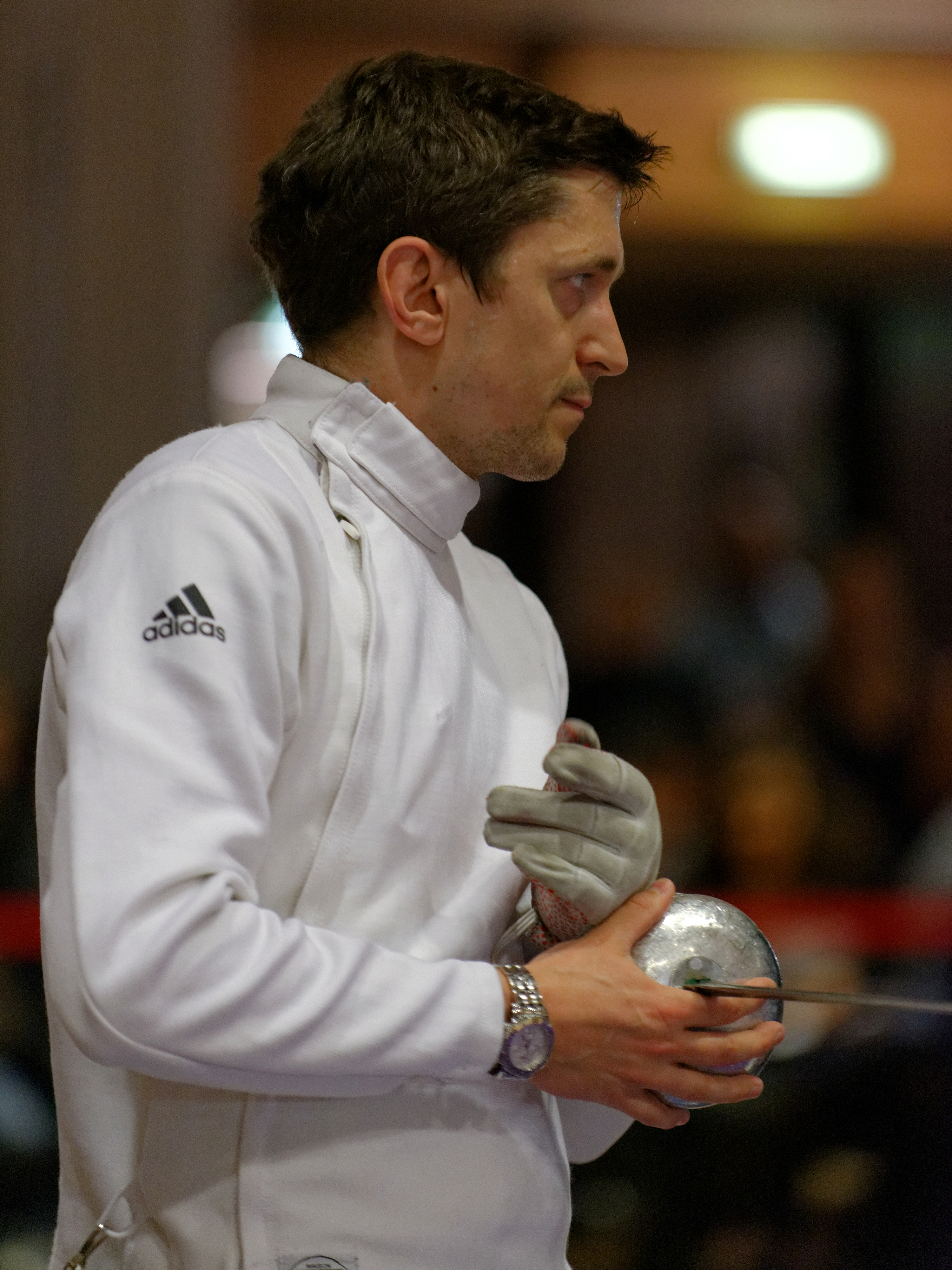 Géza Imre of Hungary during his T64 bout against Russia's Pavel Sukhov (R) in the Challenge Réseau Ferré de France–Trophée Monal 2013, a men's épée FIE World Cup competition. Louvre Carrousel, Paris.